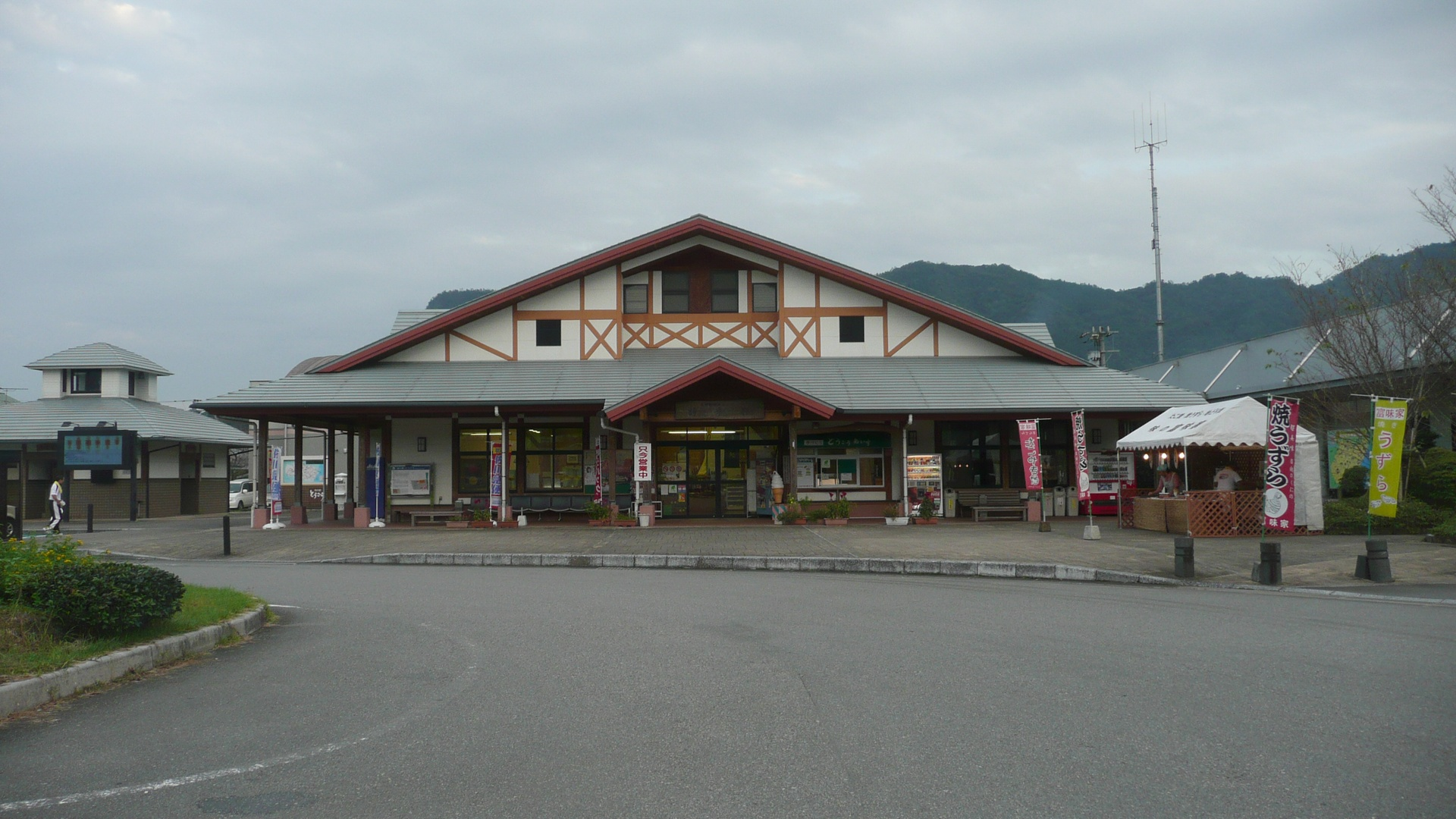 Michinoeki Tougou (Tougou, Hyuga City, Miyazaki, Japan)